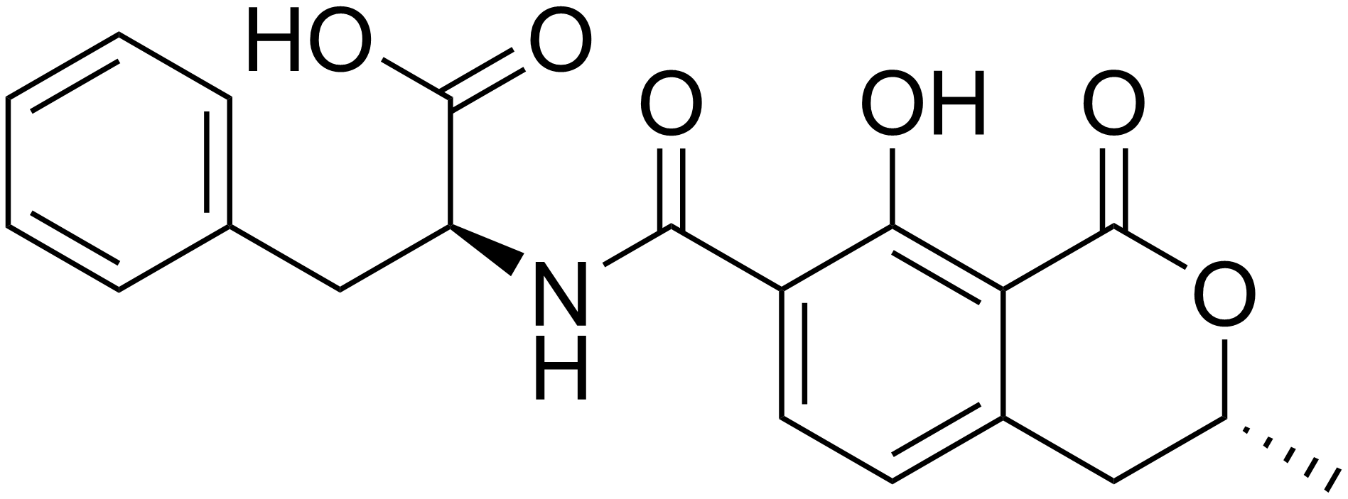 chemical structure of the mycotoxin ochratoxin B